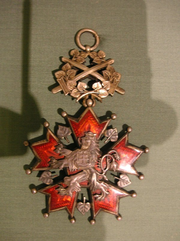 made during a summer day in Warsaw's Museum of the Polish Army; Czechoslovakian Order of the White Lion, medal. Awarded to Gen. Władysław Sikorski of Poland